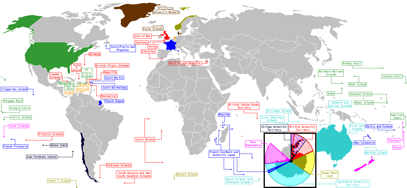 Map showing Dependencies of various nations.